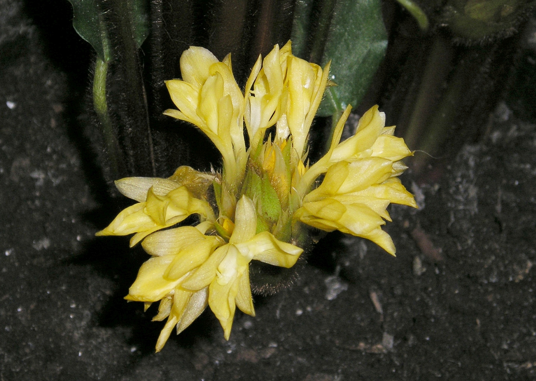 Calathea rufibarba